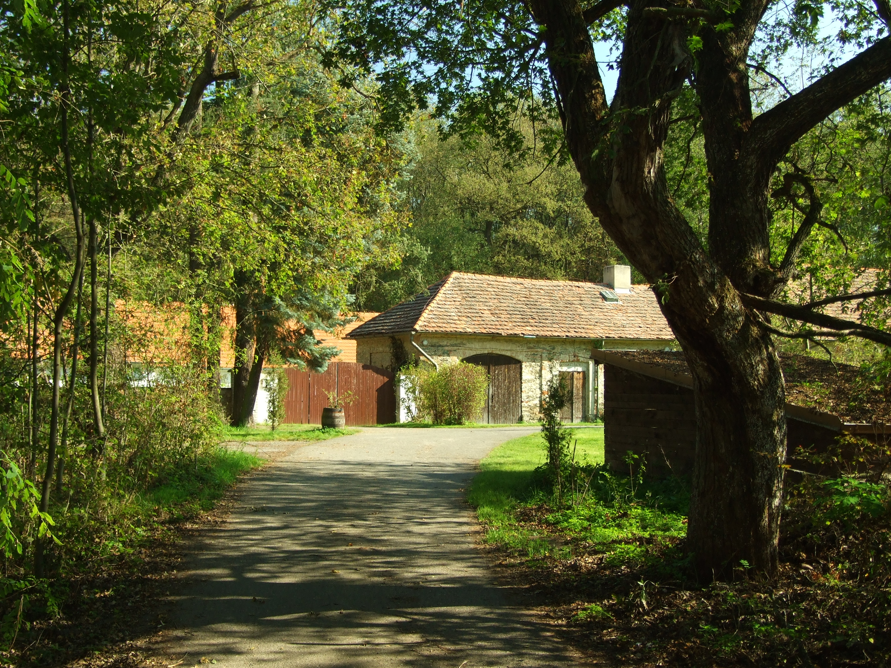 Cholupická bažantnice nature reserve near Prague-Cholupice close to the southern border of Czech metropolis